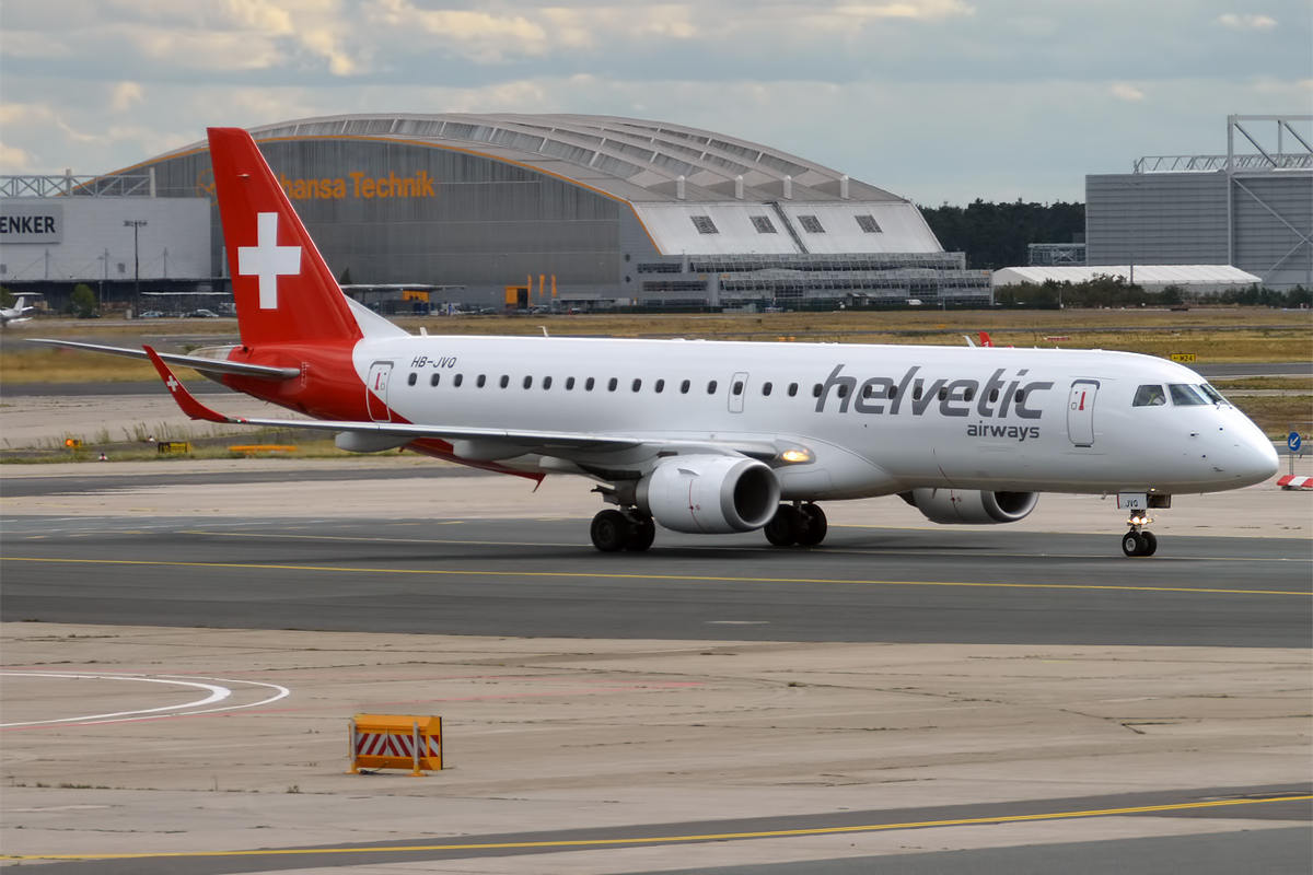 Helvetic Airways, HB-JVQ, Embraer ERJ-190LR